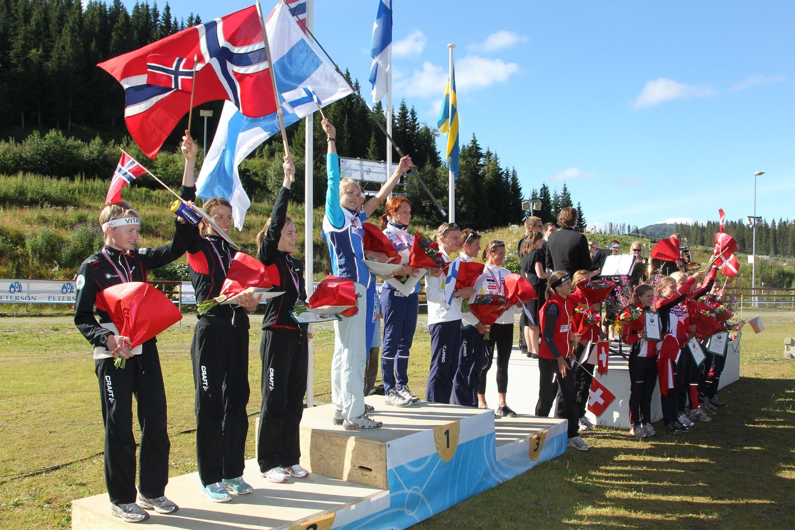 Prize giving ceremony Relay at World Orienteering Championships 2010 in Trondheim, Norway